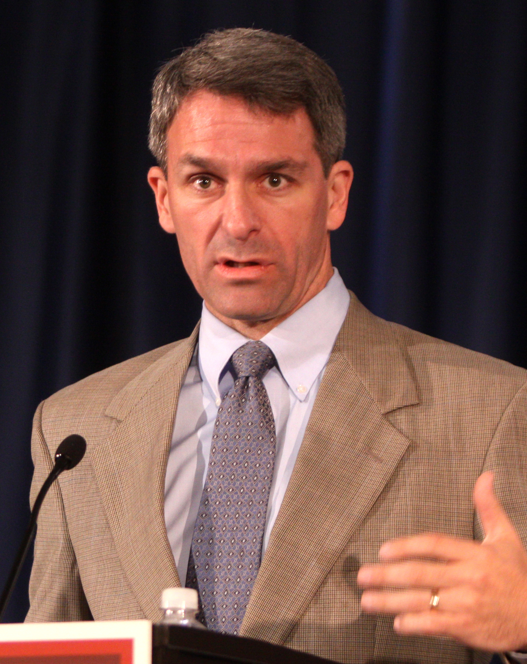 Ken Cuccinelli speaking at LPAC 2012 in Chantilly, VA on September 15, 2012.